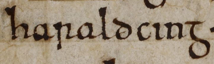 The name of Haraldr Knútsson, King of England (died 1040) as it appears on folio 156v of British Library Cotton MS Tiberius B I (the "C" version of the Anglo-Saxon Chronicle): "Harold cing".